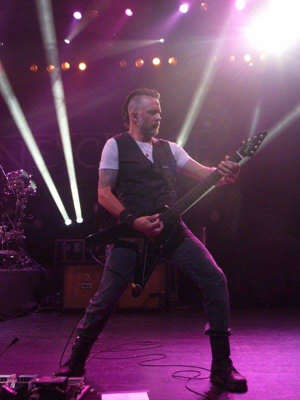 Troy Mclawhorn performing in a concert